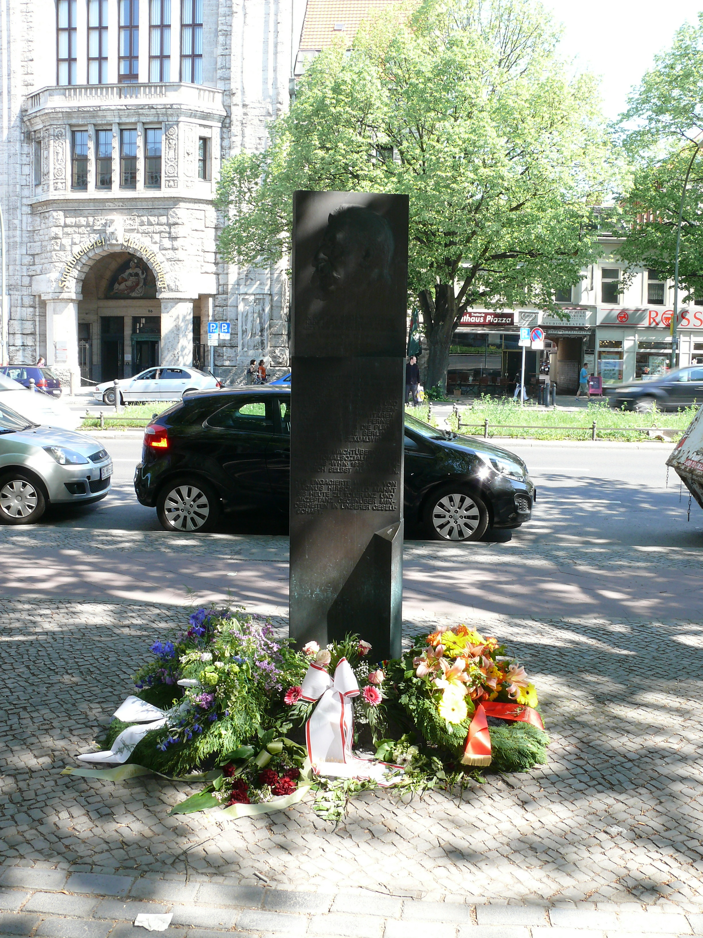 Berlin-Charlottenburg Otto-Suhr-Allee 93 Säule Magnus Hirschfeld